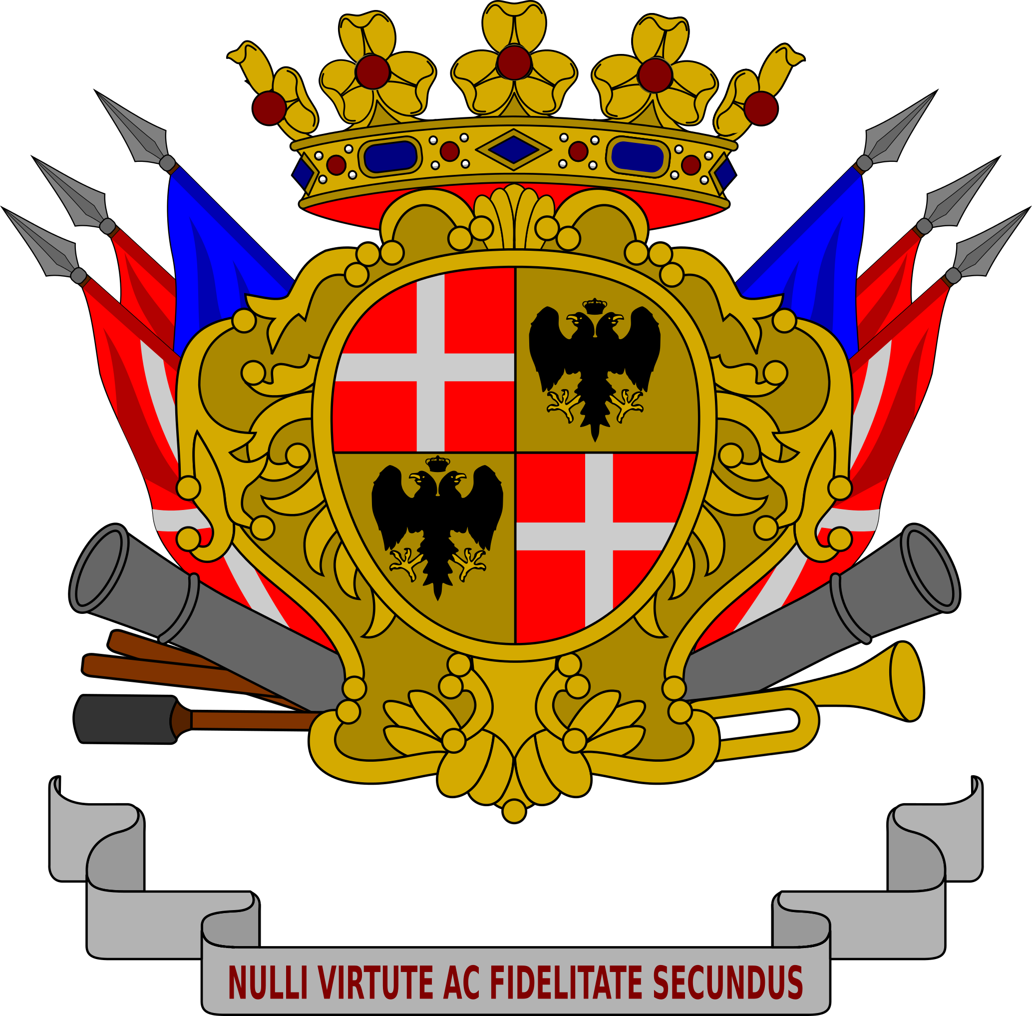 Coat of Arms of the 2nd Infantry Regiment "Re", Royal Italian Army, 1939